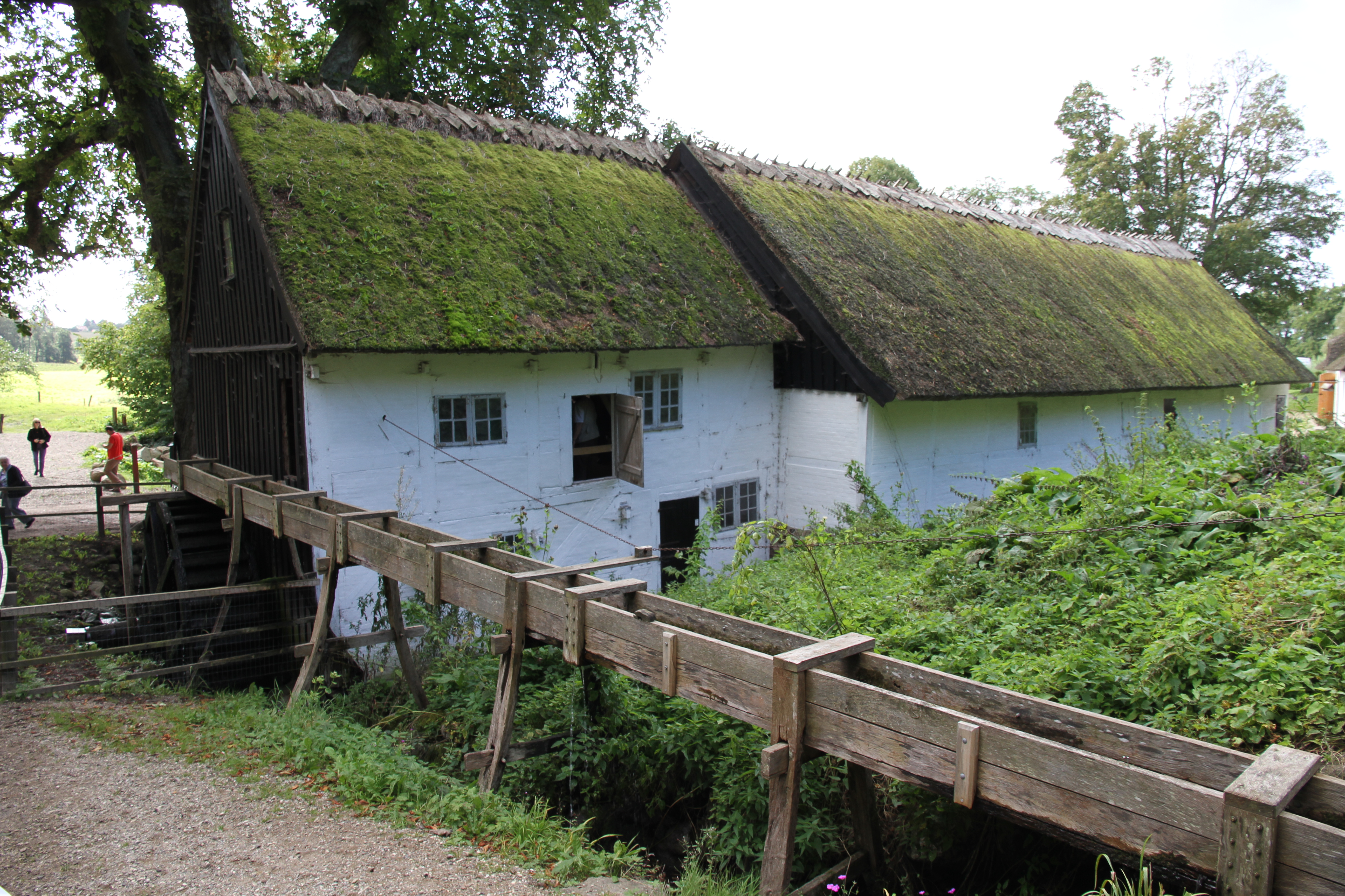 Pictures taken during the tims congress september 2011 Tadre watermill